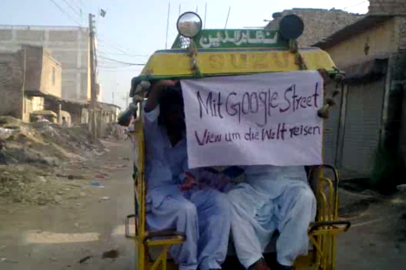 'Advertising campaign' for the art project 'Mit Google Street View um die Welt reisen (Travelling the world by Google Street View)' in Pakistan.